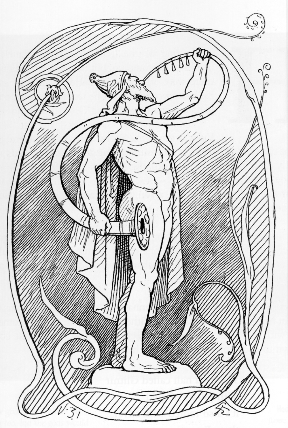 The god Heimdallr with Gjallarhorn. Artwork by Lorenz Frølich (1820-1908).